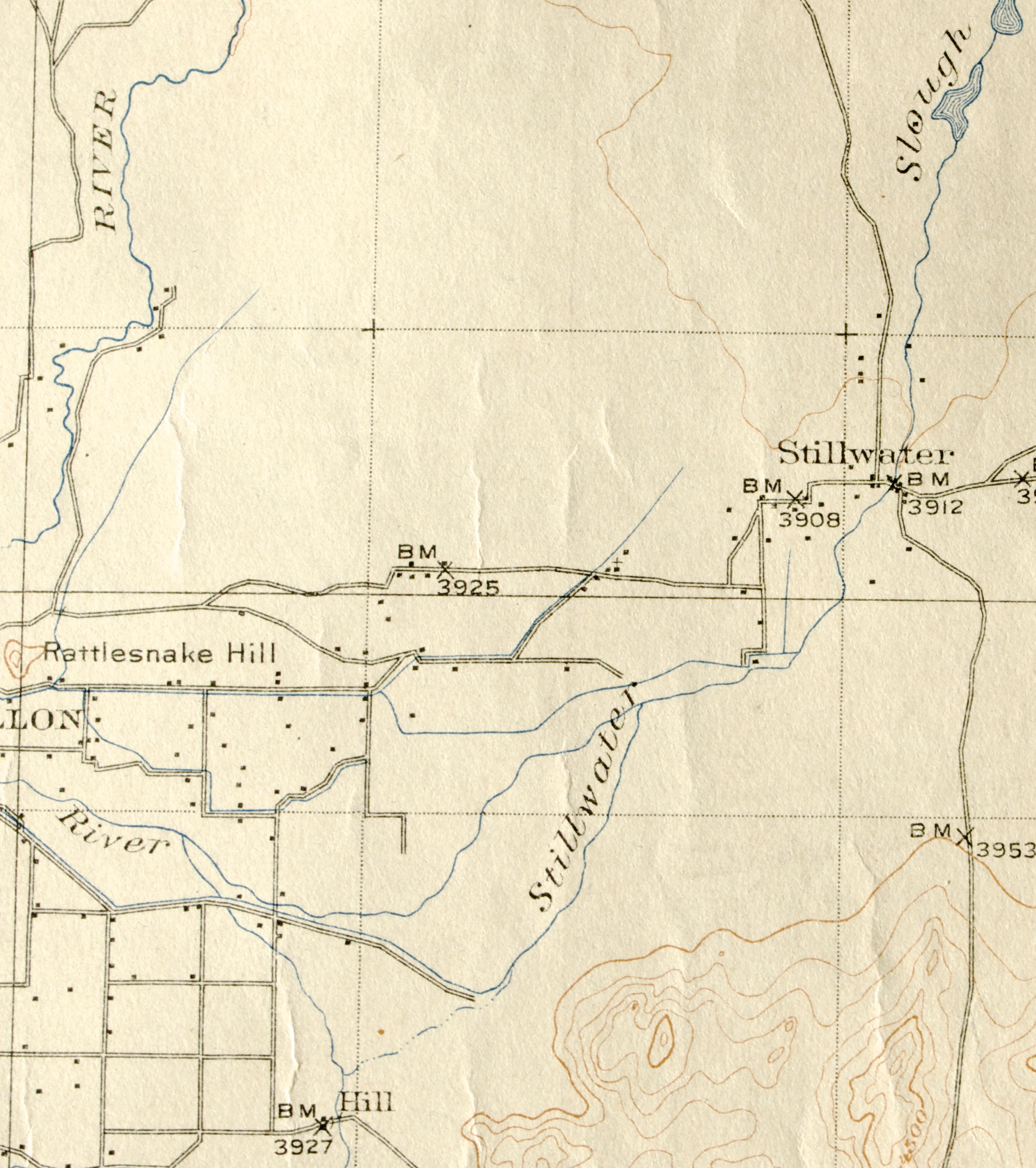 Detail from 1910 map of Stillwater and surrounding area